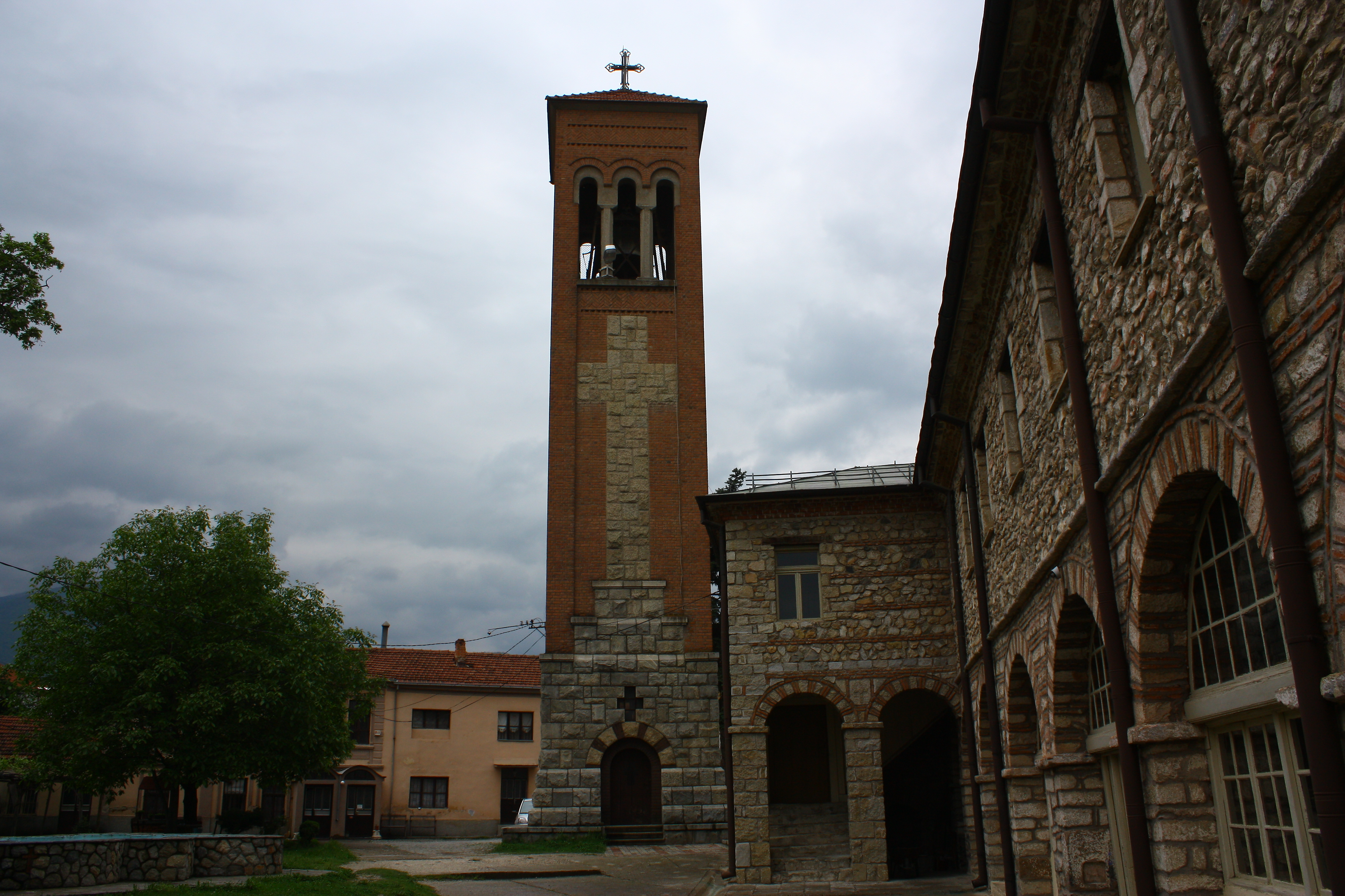 St. Demetrius Church in Bitola, Macedonia